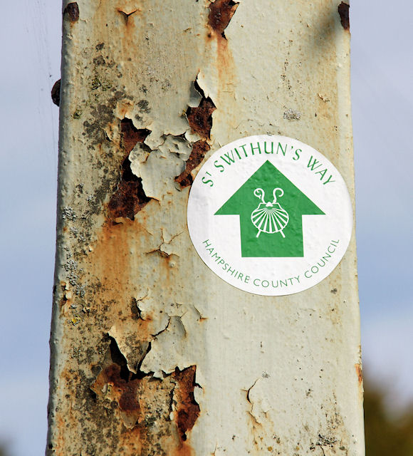 St Swithun's Way Waymark, Hyde Helping to keep the paint on a lamppost in Saxon Road, Hyde.